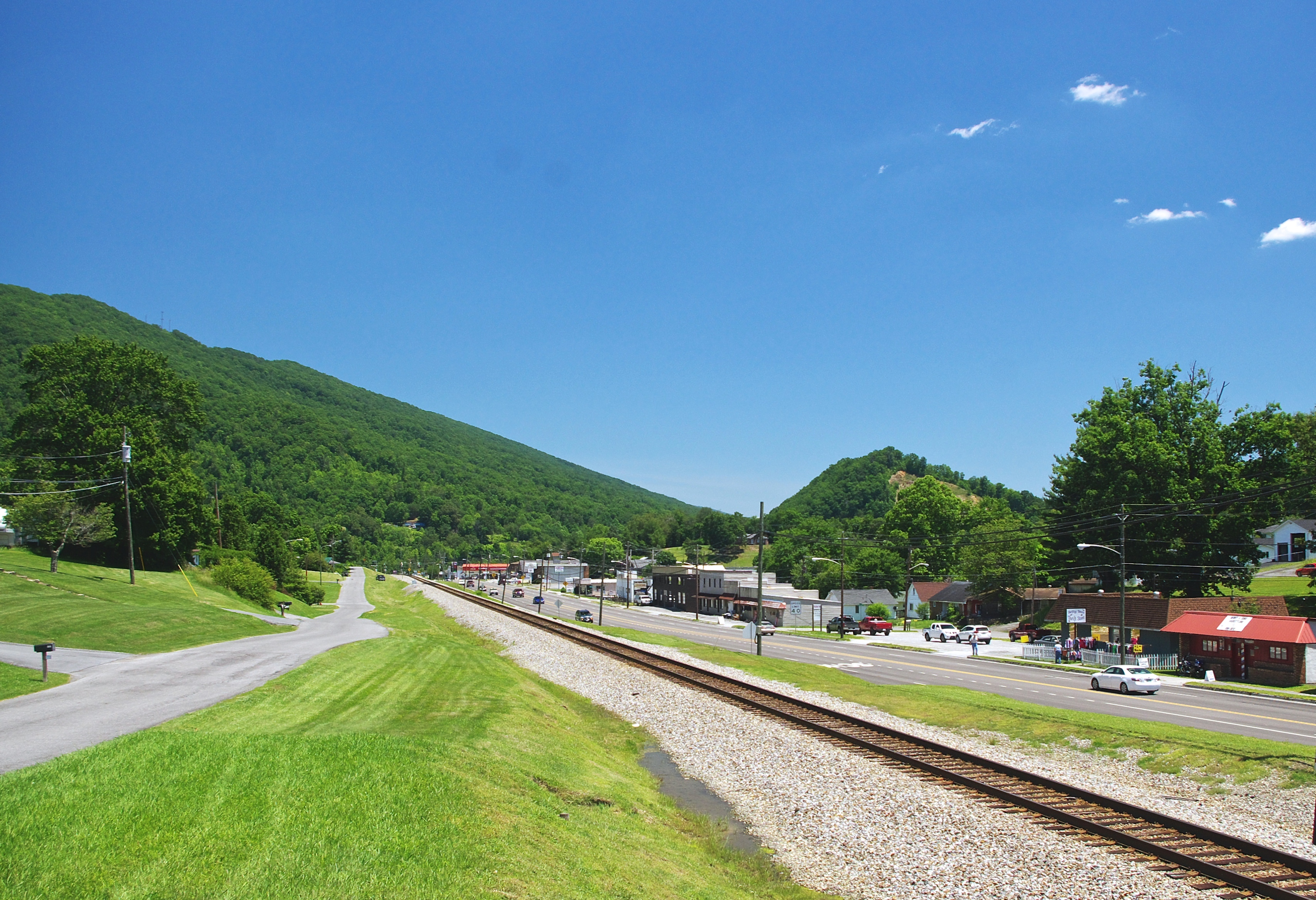 Railroad tracks and businesses along U.S. Route 23 in Weber City, Virginia, United States.